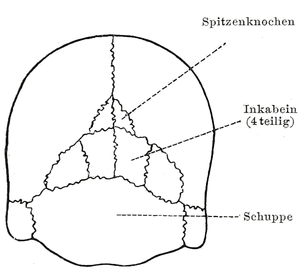 An anatomical illustration from the 1921 German edition of Anatomie des Menschen: ein Lehrbuch für Studierende und Ärzte with latin terminology.